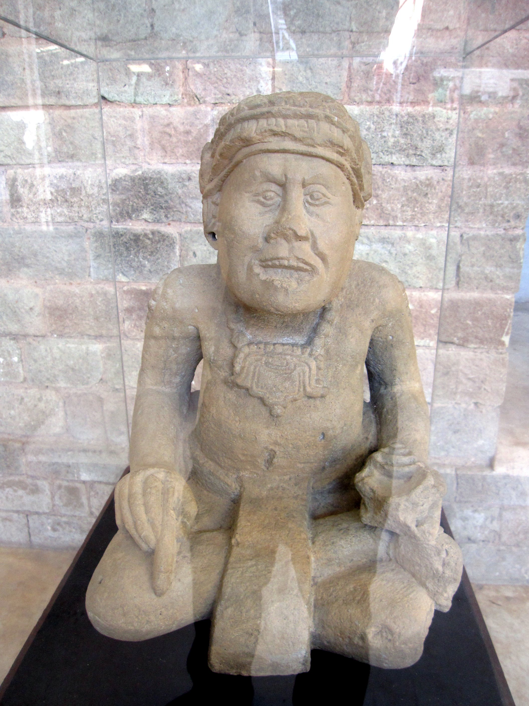 Pauah Tun (scribe) sculpture from Structure 82 (9N-82) at Copán, Honduras.